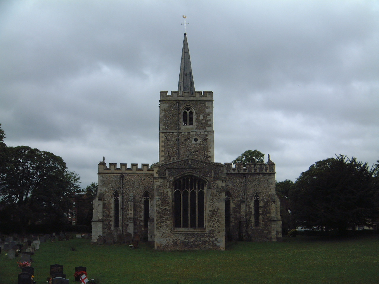 Photograph of Church of St Mary at Ivinghoe, Buckinghamshire ca. 2000.